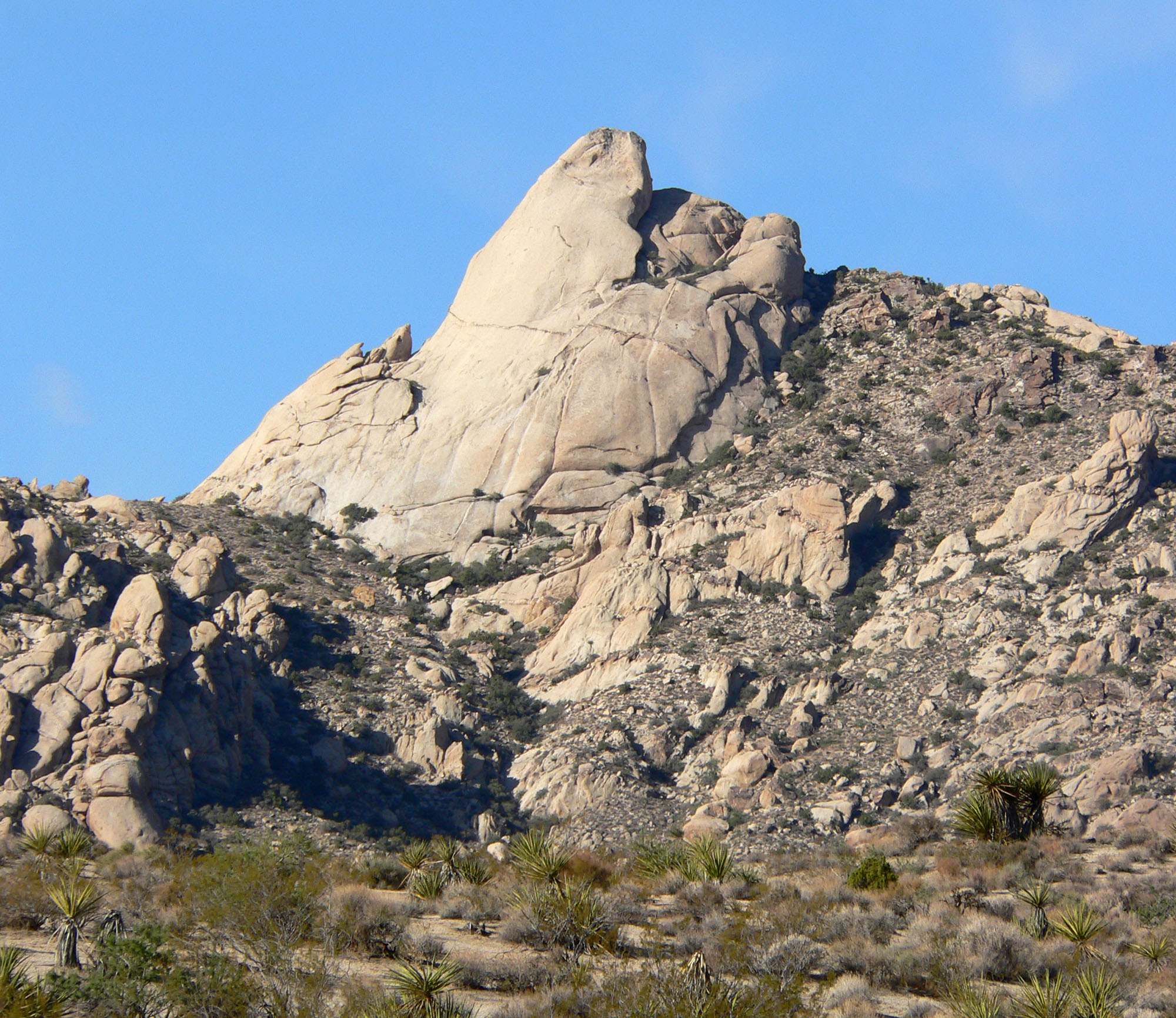 Grapevine Canyon granite, Newberry Mountains (Nevada), southern Nevada